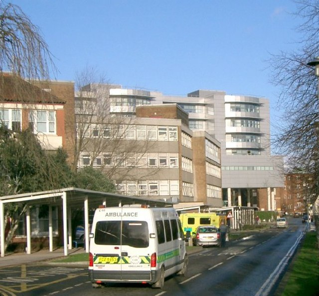 Royal Victoria Hospital. One of the Royal group of hospitals which occupies this large site.